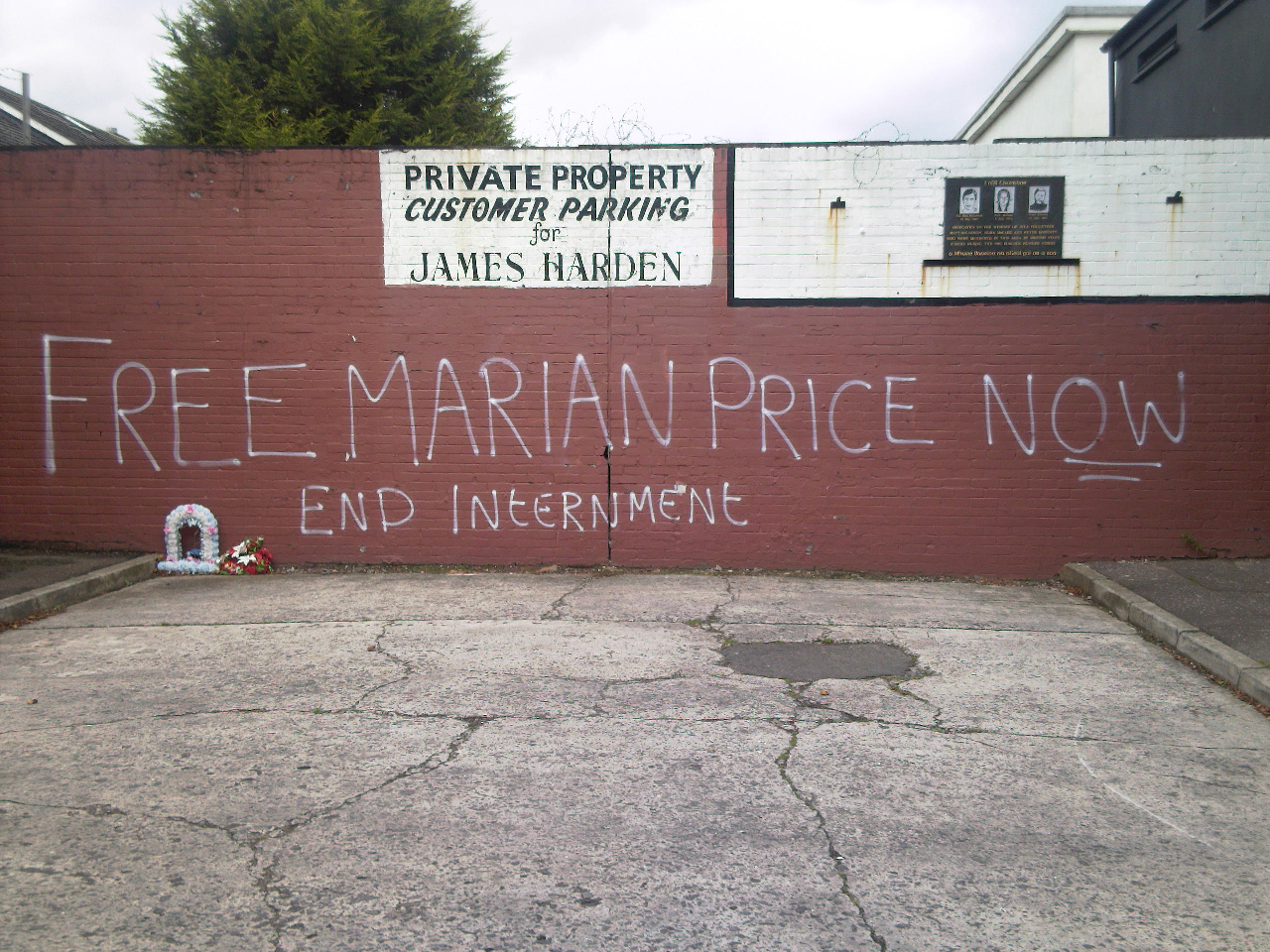 Graffiti in support of Marian Price on Belfast's Falls Road